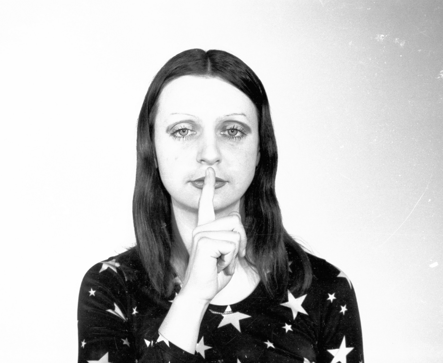 Ewa Partum, Exercises, 1972 Ewa Partum, Ćwiczenia, 1972